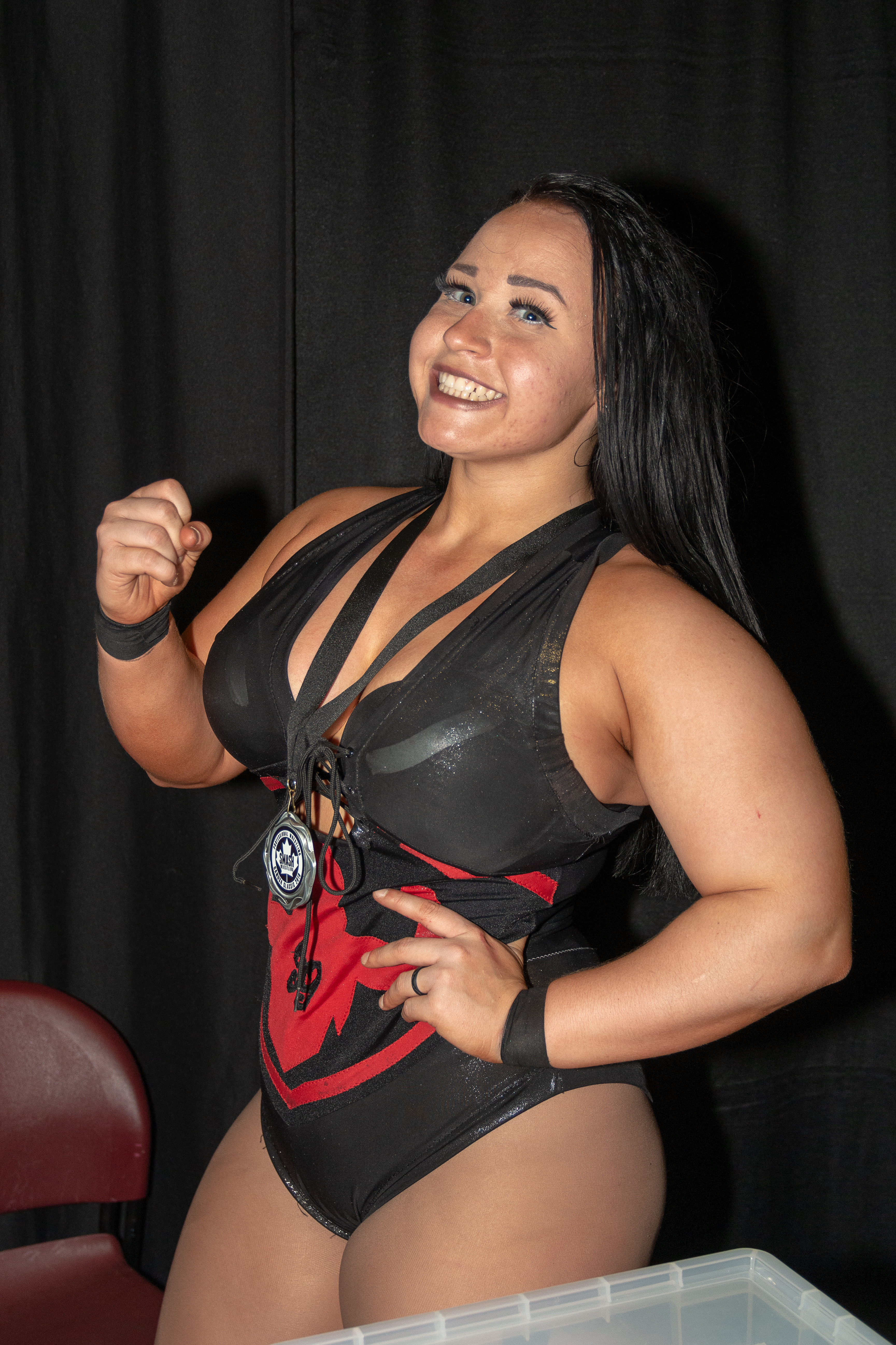 Pro wrestler Jordynne Grace photographed post-event at Smash Wrestling's Canusa 2018 show in London, ON